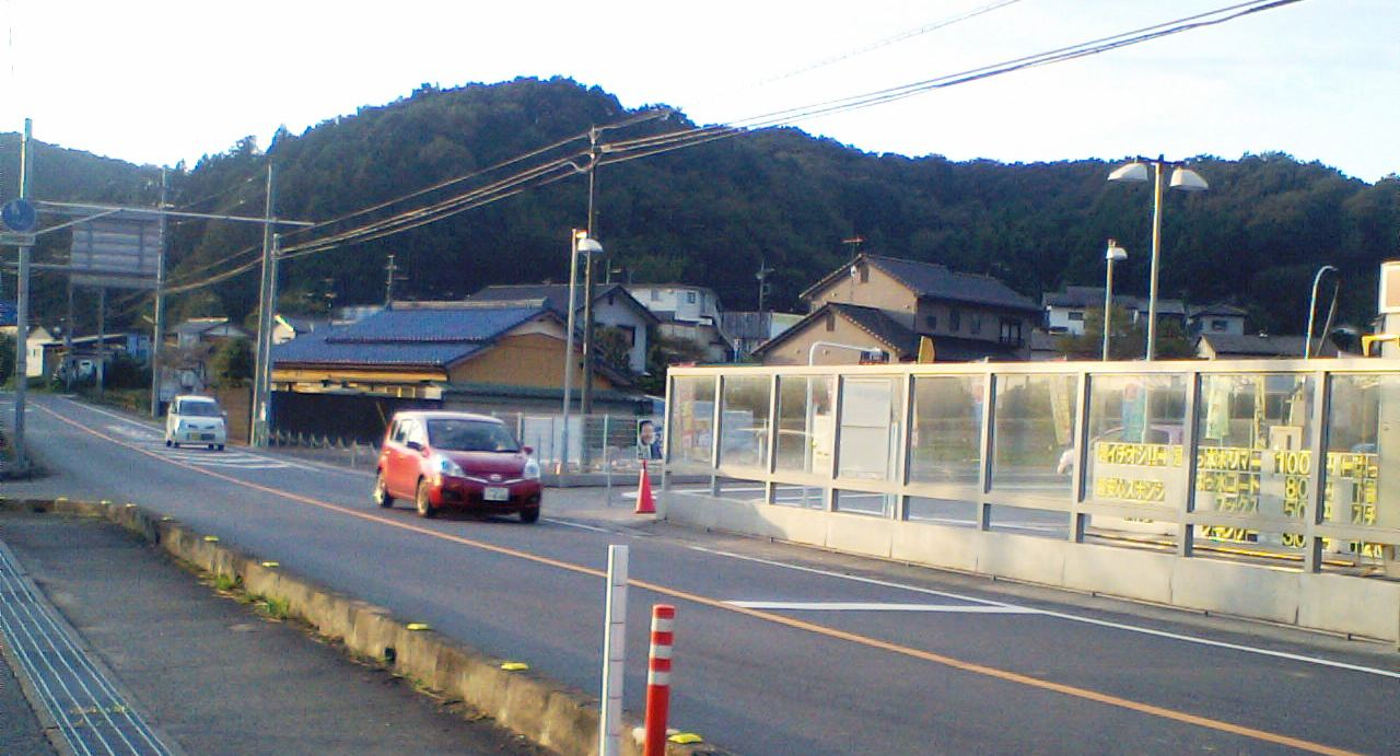 Gomyo,Tokigawa-town,Hiki-county,Saitama-pref,JAPAN, nearby Gomyo-crossing.